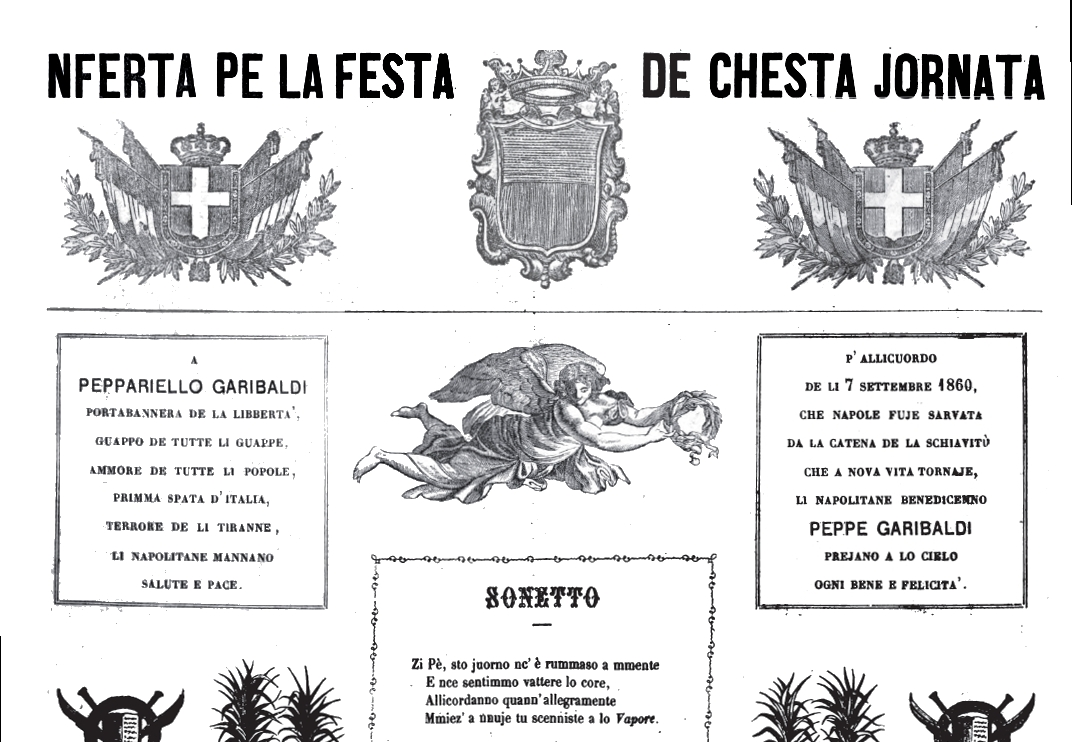 Manifest celebrating first year anniversary of Garibaldi entring in Napoli